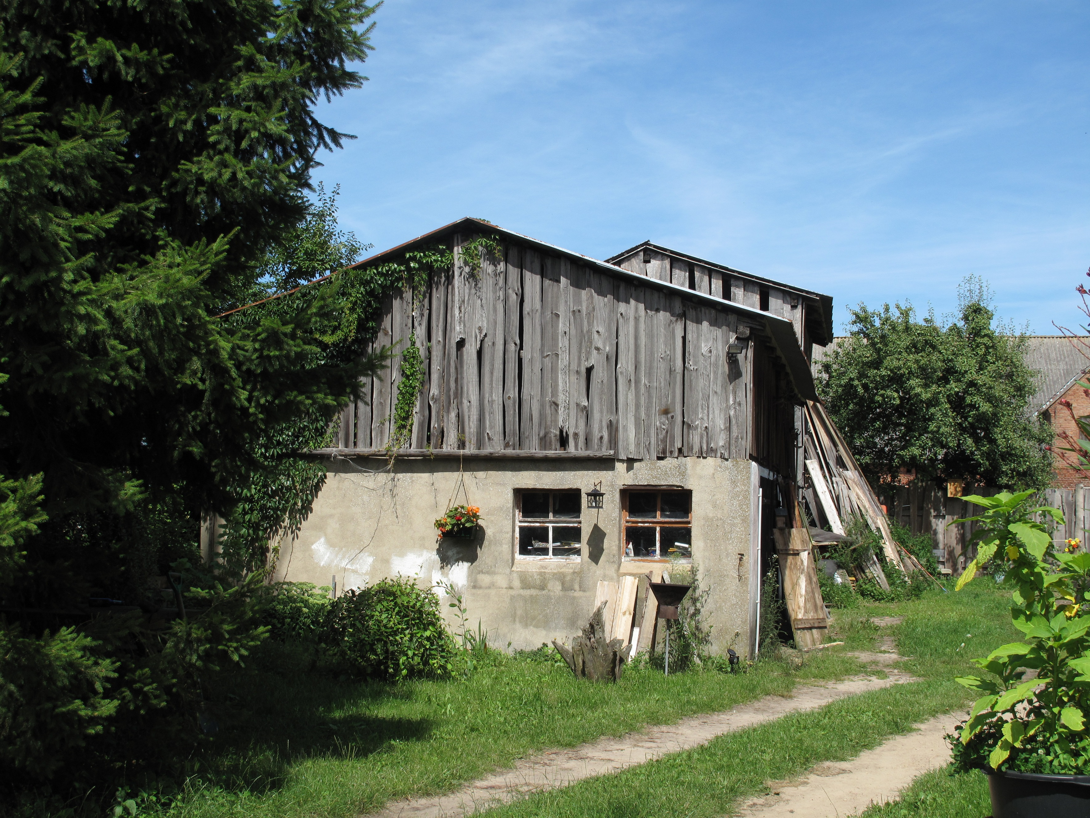 Old barn in Gottesgabe. Gottesgabe (german for: god's gift) is a part of Altfriedland, a village of the municipality Neuhardenberg in the District Märkisch-Oderland, Brandenburg, Germany. In 1304 Gottesgabe was bought by the Cistercian Nunnery Friedland and was used until the 20th-century as folwark by the following Herrschaft Friedland. In todays village there remind to the old folwark some, mostly dilapidated farm annexes and barns as well as rail profils; some buildings have been restored.